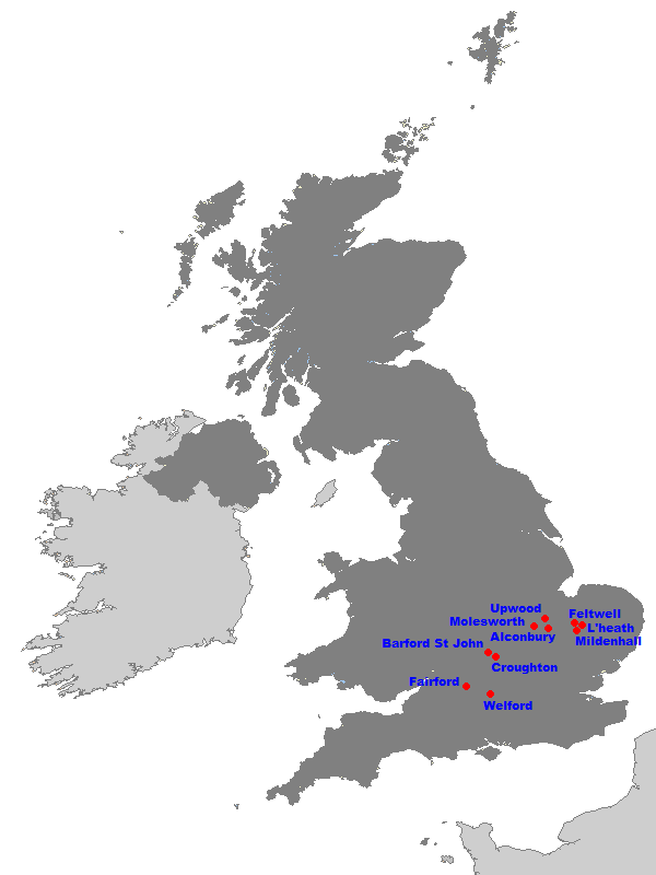 Grey outline map of UK with locations of USAF bases in the UK marked on and labelled